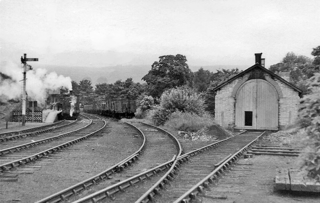 Wearhead Railway station and engine shed. View NW, towards buffer-stops; ex-North Eastern terminus of branch from Stanhope and Bishop Auckland. This was the Last Day of passenger services (27/6/53), but goods continued until 2/1/61 - to St John's Chapel until 1/11/65. The train in the station, waiting to make its last journey down Weardale is an ex-NE J21 0-6-0, which probably lived in the little Shed.